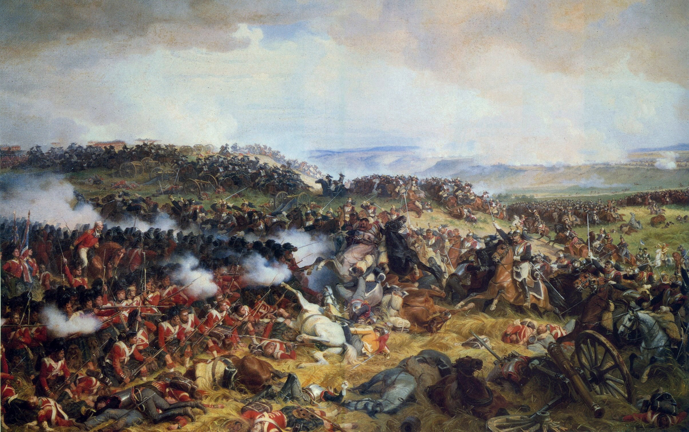 Depicting French Cuirassiers charging onto the British squares during the Battle of Waterloo.